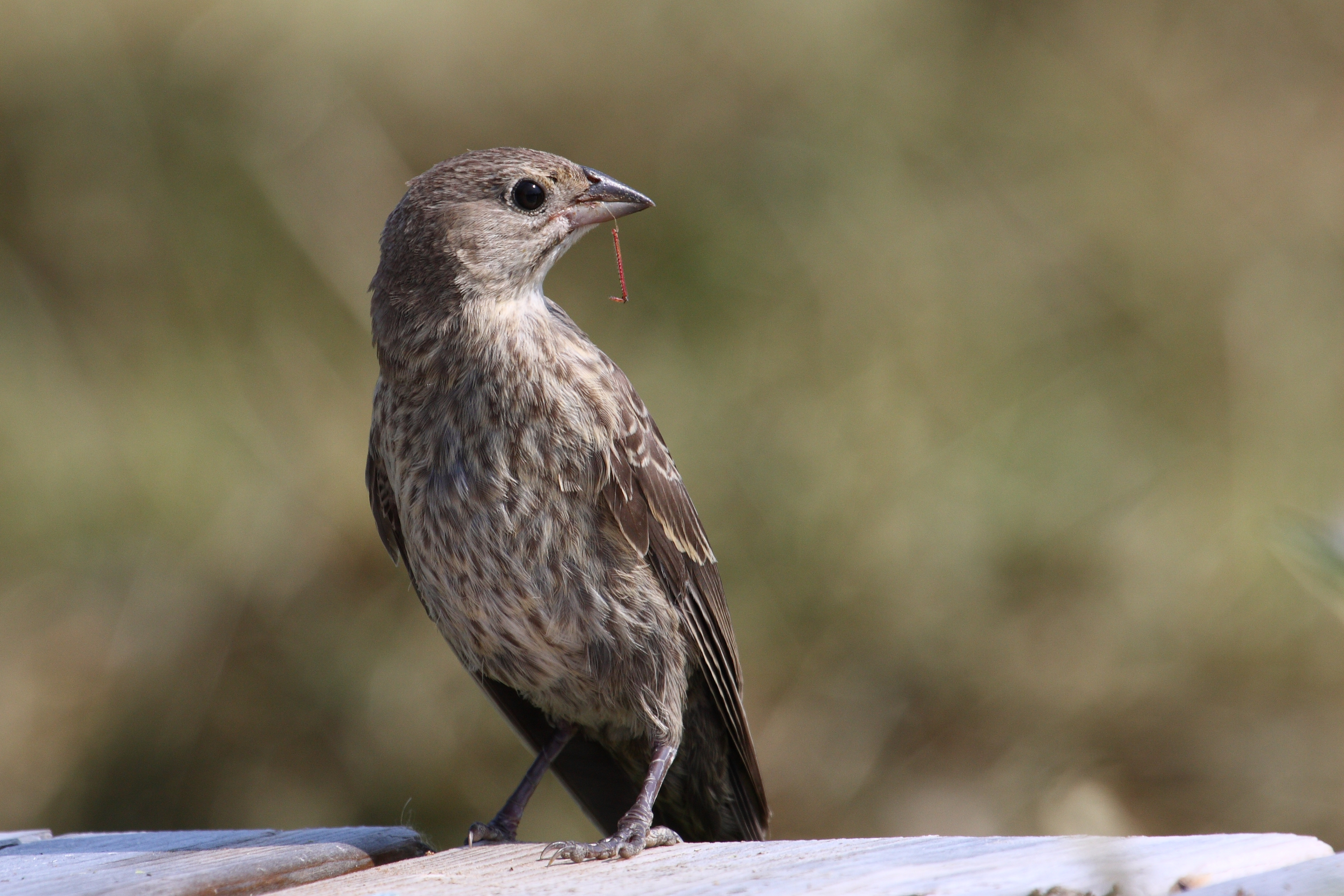 Brown-headed Cowbird (Molothrus ater) immature. A piece of Orthoptera leg, on which the bird feeds, hangs from its bill. Cap Tourmente National Wildlife Area, Quebec, Canada.